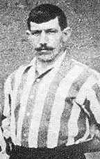 Photo of Ernest Needham